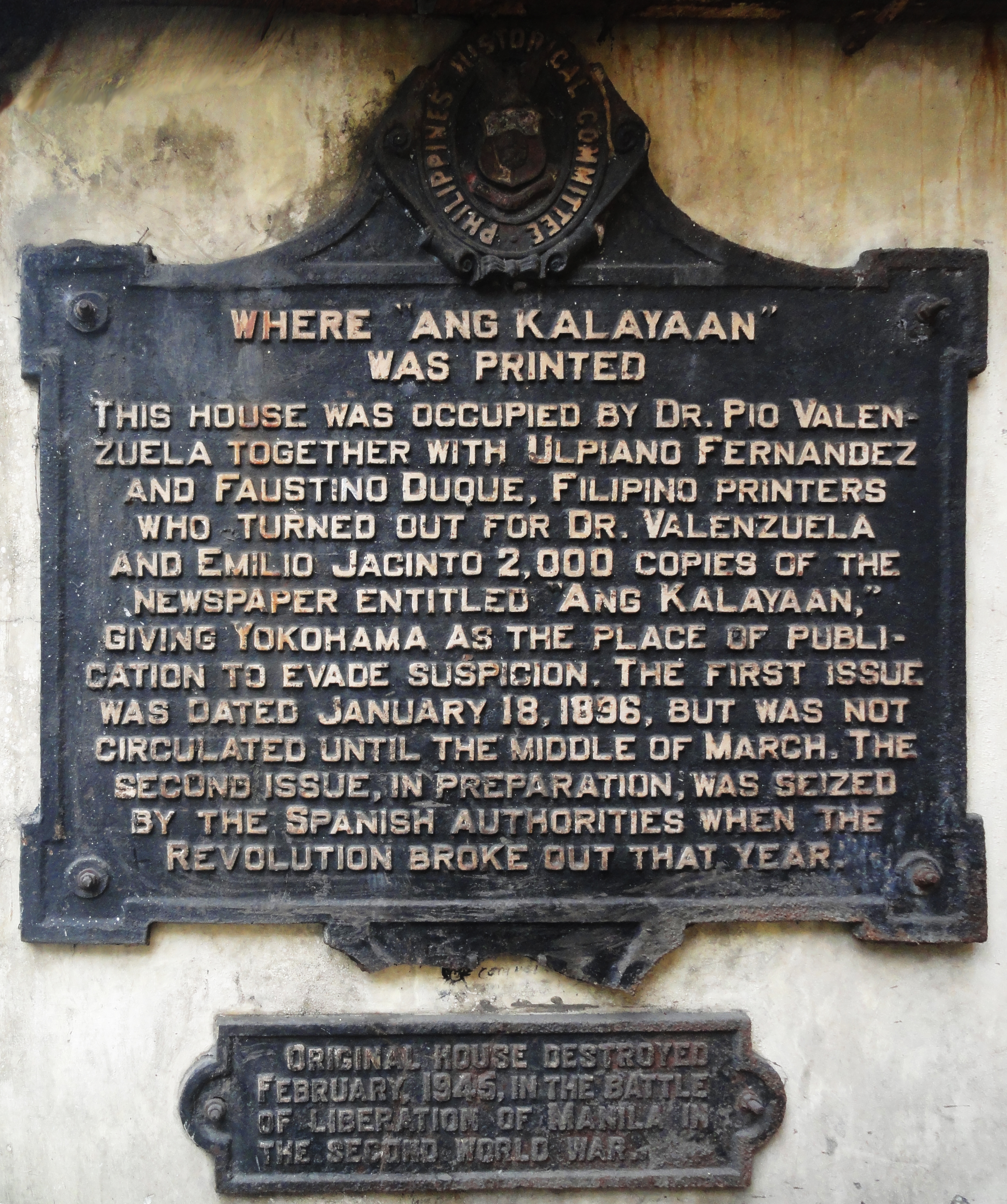 Where Ang Kalayaan was Printed marker